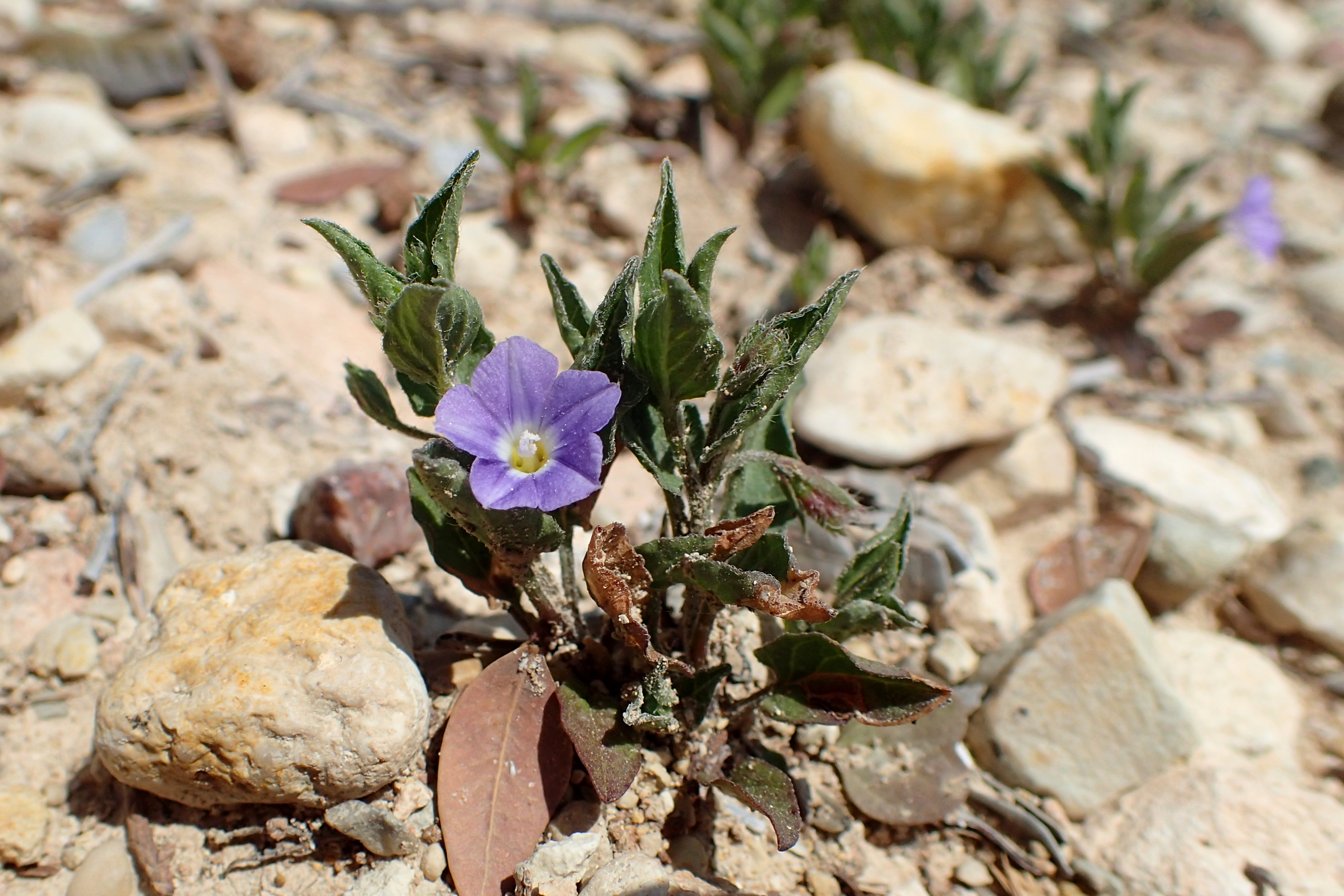 Convolvulus pentapetaloides in Avakas Gorge, Cyprus